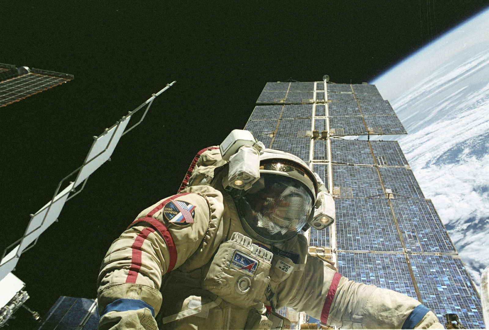 Astronaut Leroy Chiao, Expedition 10 commander and NASA ISS science officer, wearing a Russian Orlan spacesuit, participates in the first of two sessions of extravehicular activities (EVA) performed by the Expedition 10 crew during their six-month mission. Chiao and cosmonaut Salizhan S. Sharipov (out of frame), flight engineer representing Russia's Federal Space Agency, spent 5 ½ hours outside the International Space Station (ISS) installing a work platform, cables and robotic and scientific experiments on the exterior of the Zvezda Service Module. Station solar array panels are visible near Chiao. Earth’s horizon and the blackness of space provided the backdrop for the image.